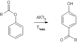 Fries Rearrangement at low temperature. Text in catalan